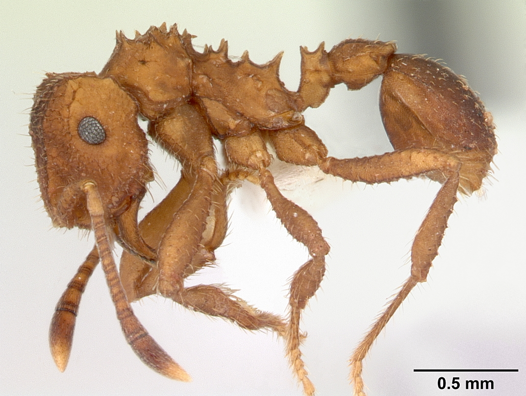 Profile view of ant Mycocepurus goeldii specimen casent0173988.